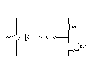 Wheatstone bridge